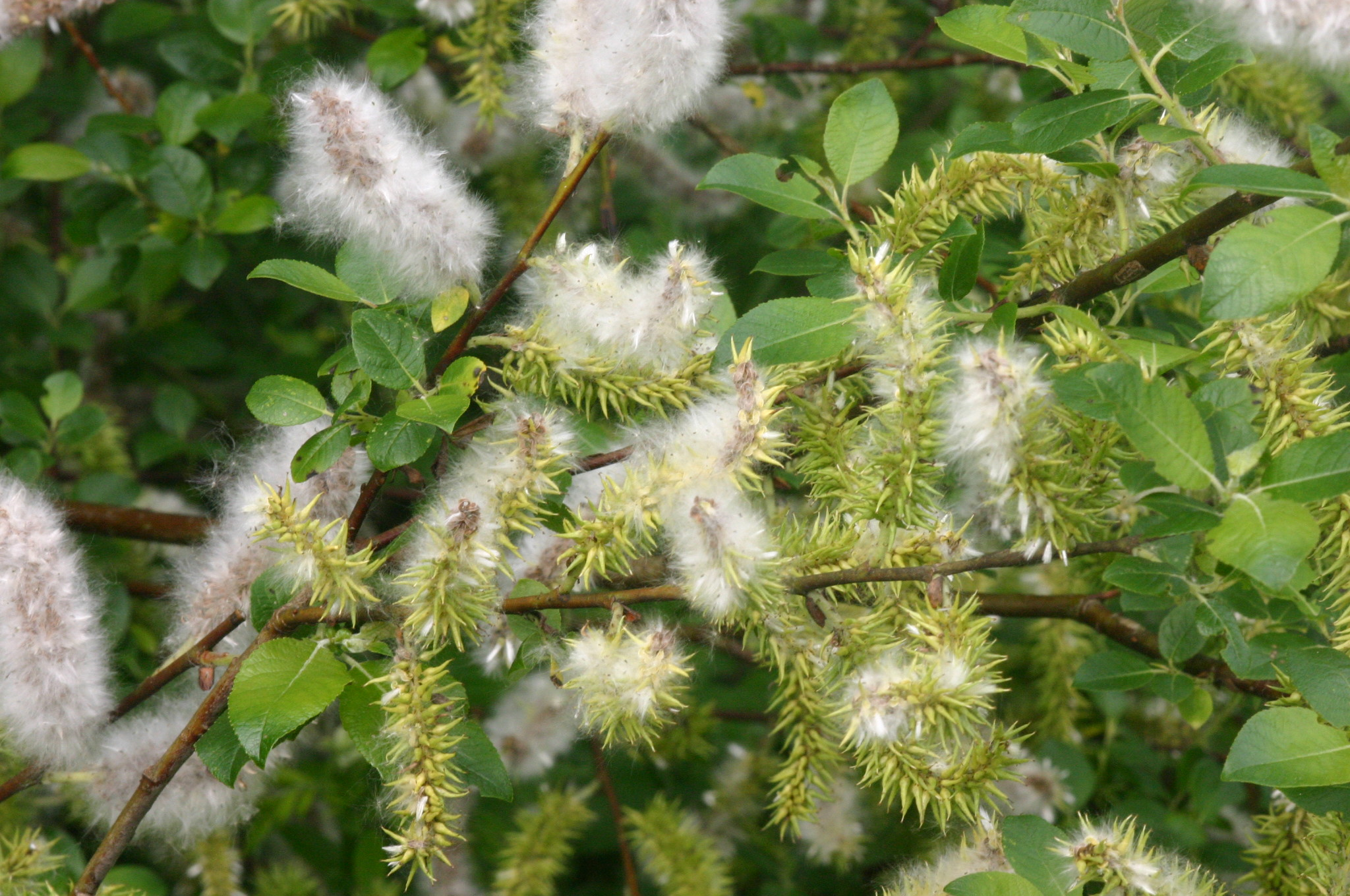 Salix myrsinifolia